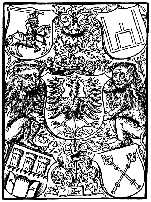 Device used by Hieronymus Vietor in 1513 in a print of Georg Ebner's Dialogus Philosophie de ritu omni verborum venustate editus.